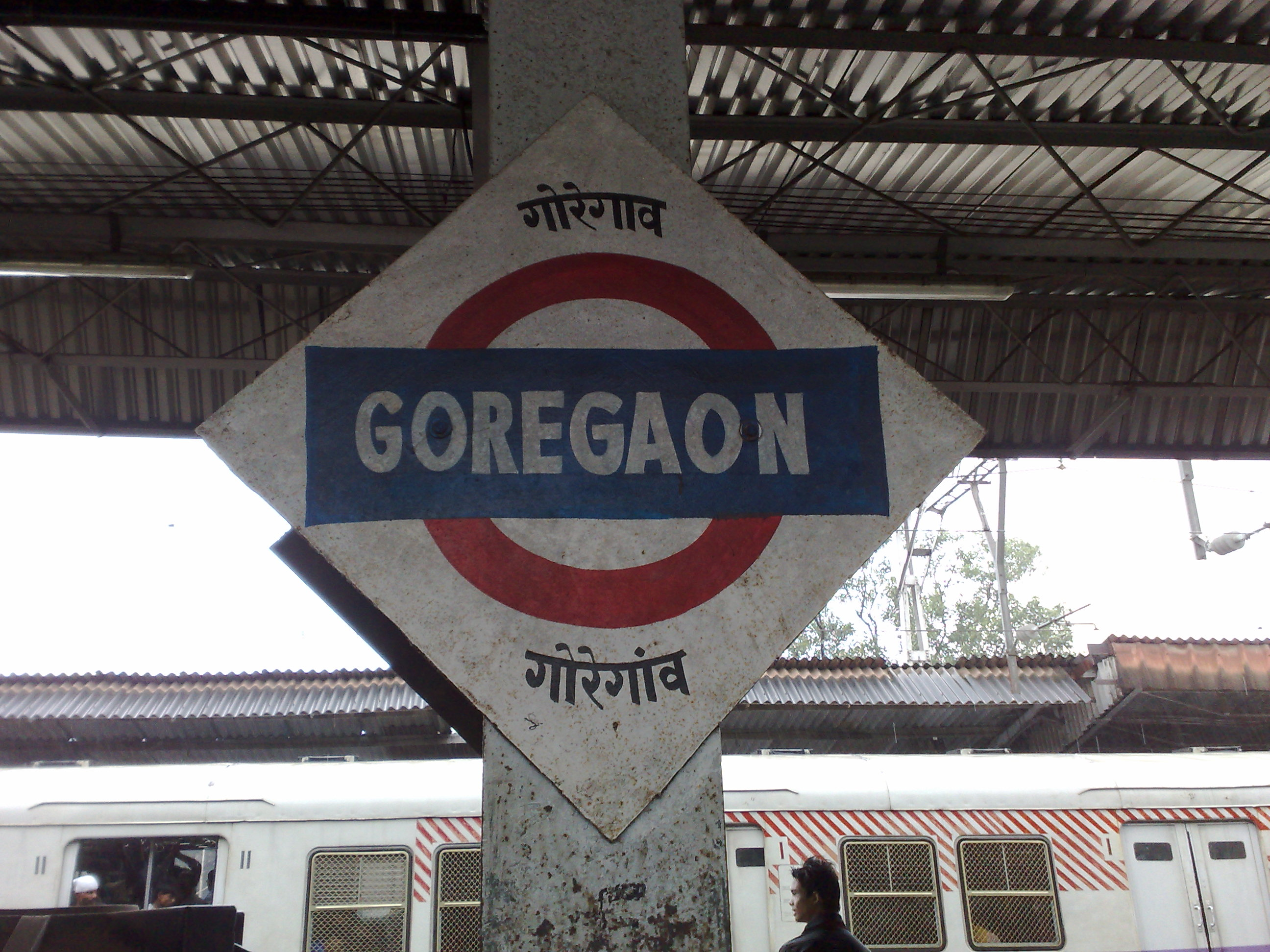 Goregaon stationboard - English